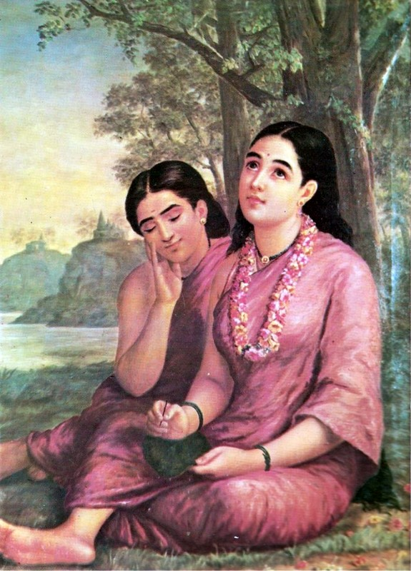 Shakuntala with Friend writing a letter to Dushyanta